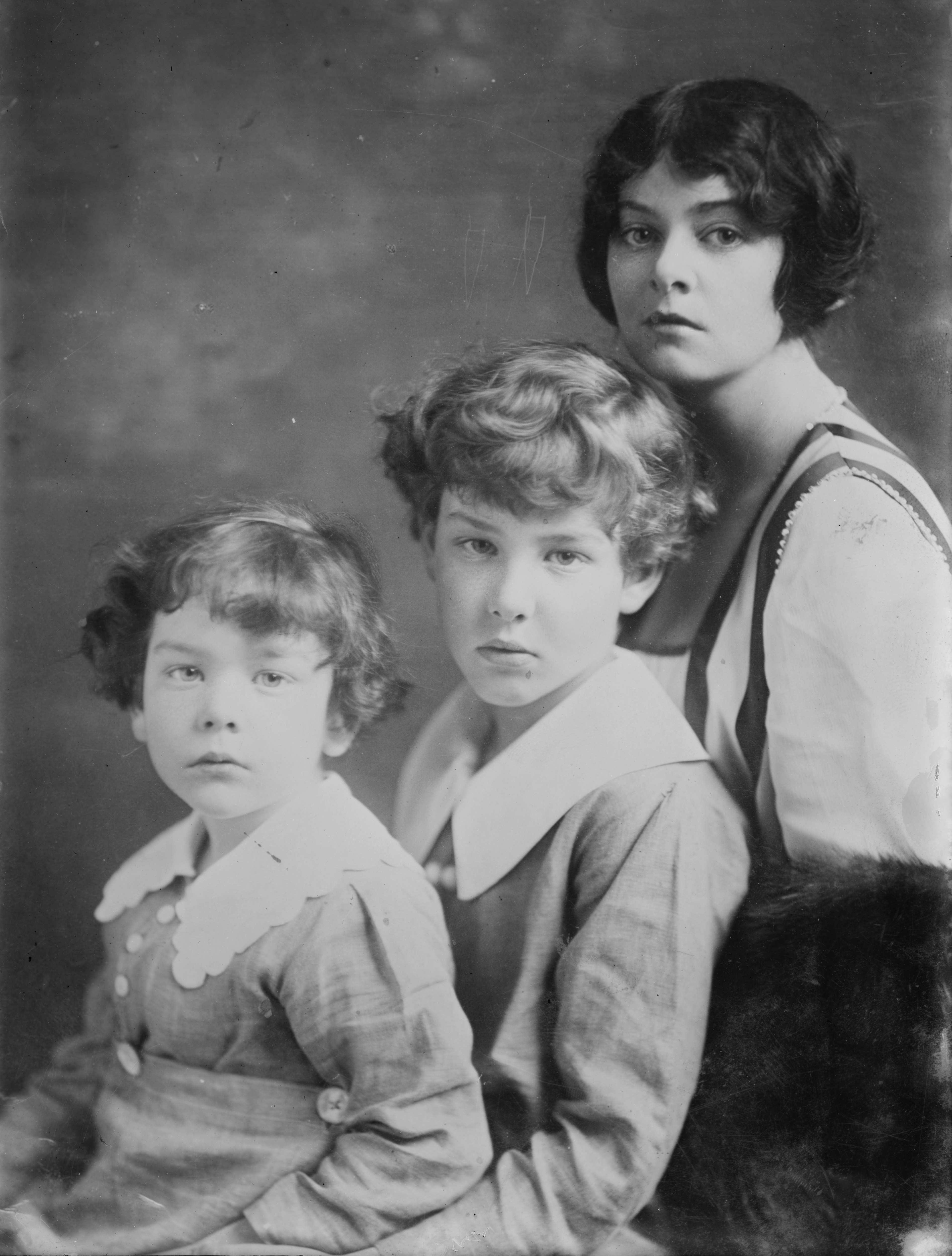 Title: Mrs. W. Astor Chanler, Theo & Wm. A. Chanler Abstract/medium: 1 negative : glass ; 5 x 7 in. or smaller.